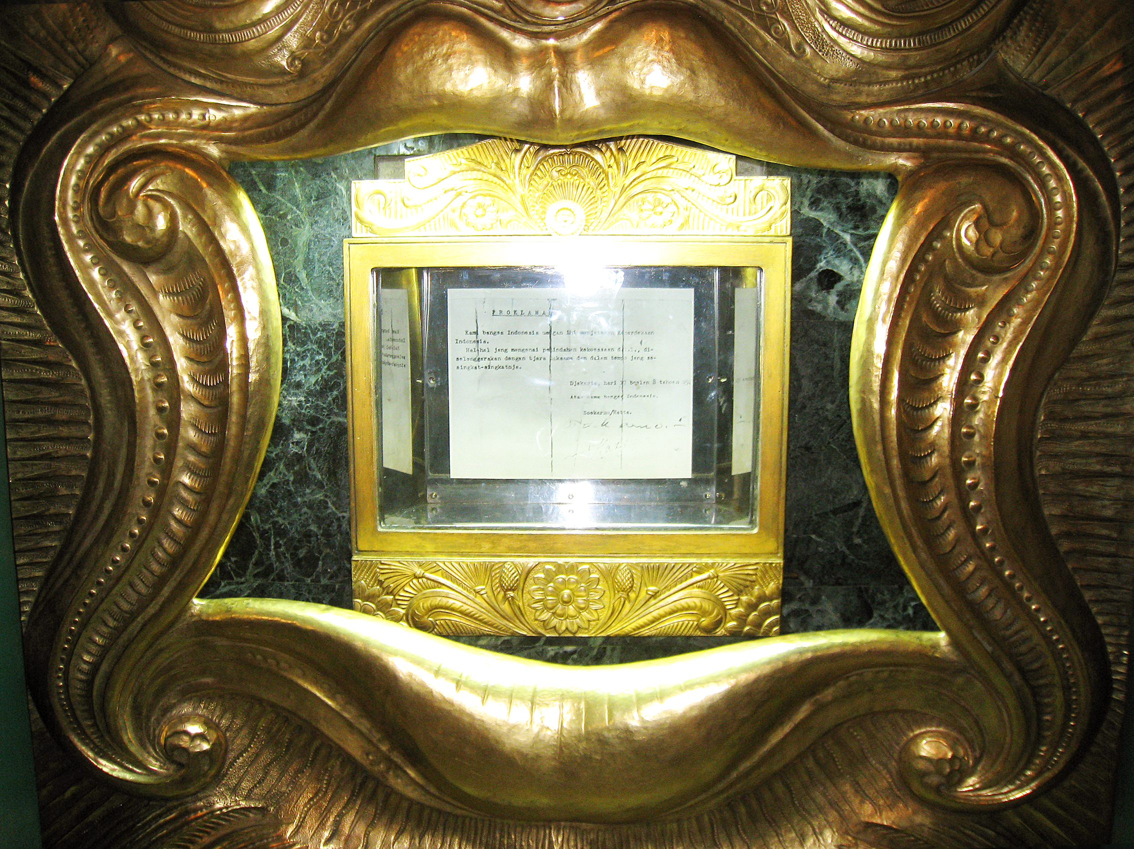 The text of Indonesian Proclamation of Independence stored inside glass case in gilded mechanized door inside Hall of Independence, Indonesian National Monument, Jakarta.